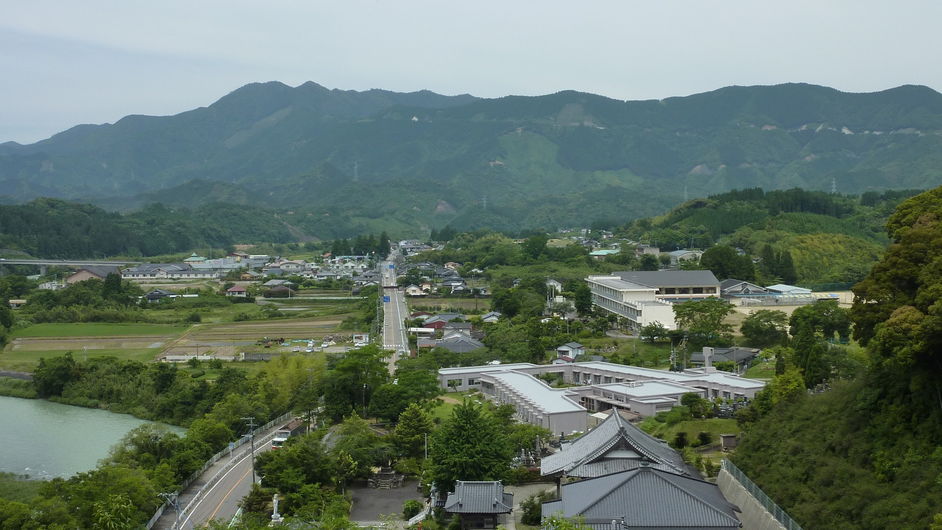 Yamage, Togo-cho, Hyuga City, Miyazaki Prefecture, Japan